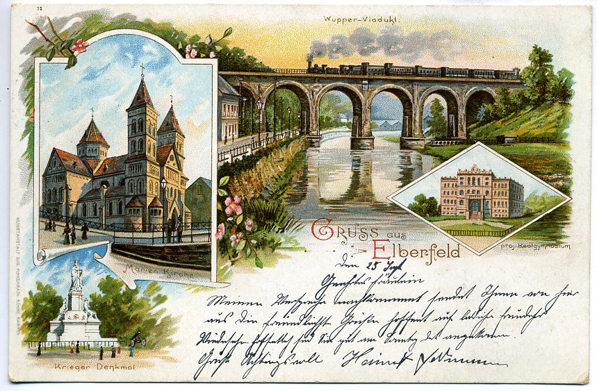 Litho: Elberfeld. 1899 - Krieger Denkmal - Marien Kirche - Wupper-Viadukt - proj. Realgymnasium